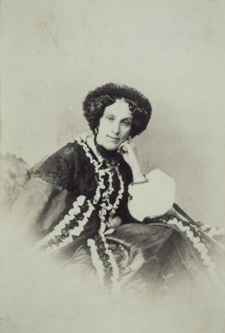 Rüdiger, Louise von, geb. Baronesse von Fircks